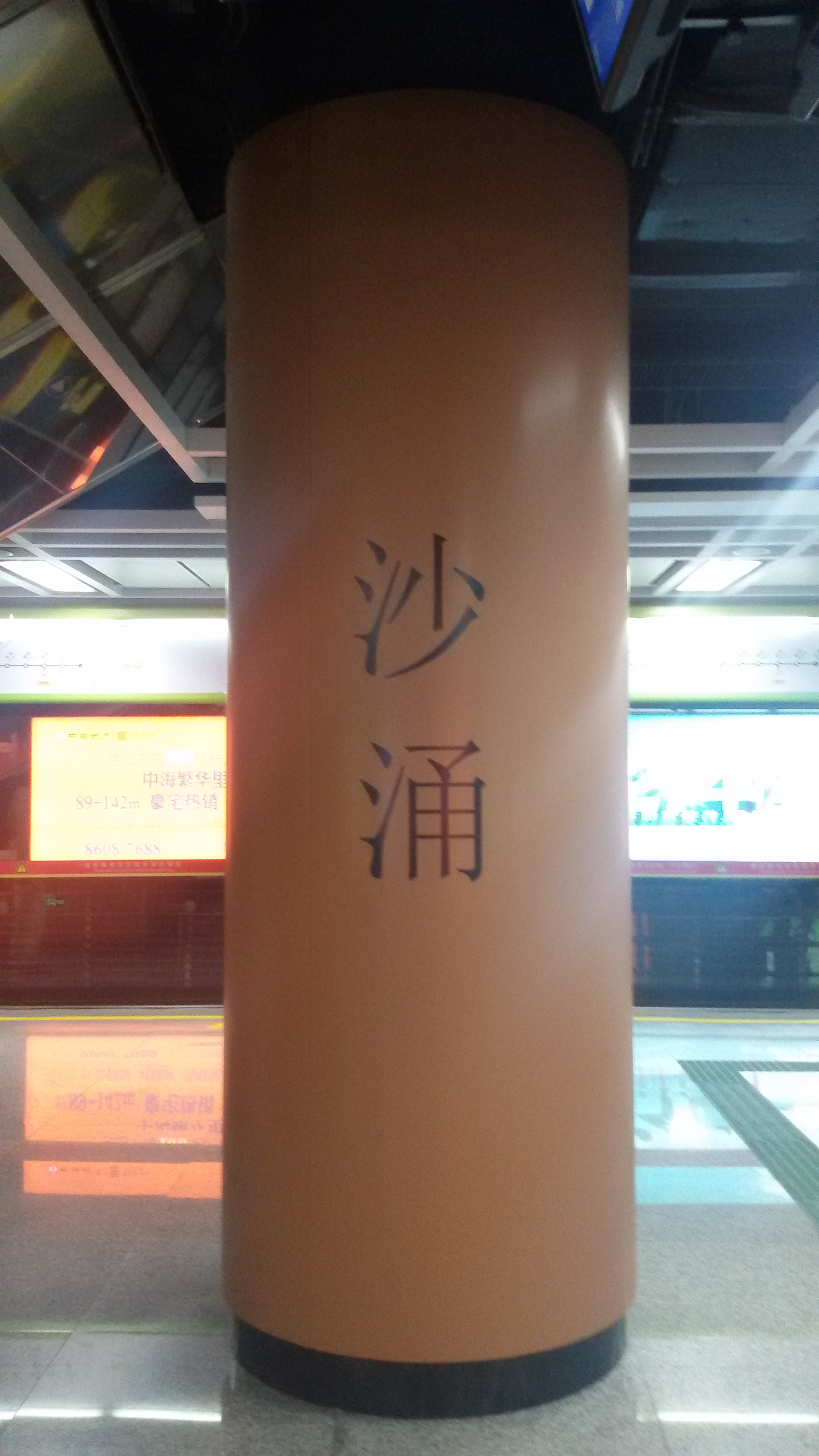 WORD on PILLAR for Shachong Station in FMetro.